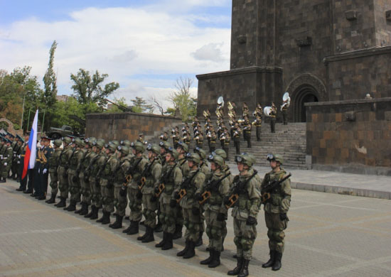 В Армении в День Победы военнослужащие ЮВО приняли участие в торжественных мероприятиях